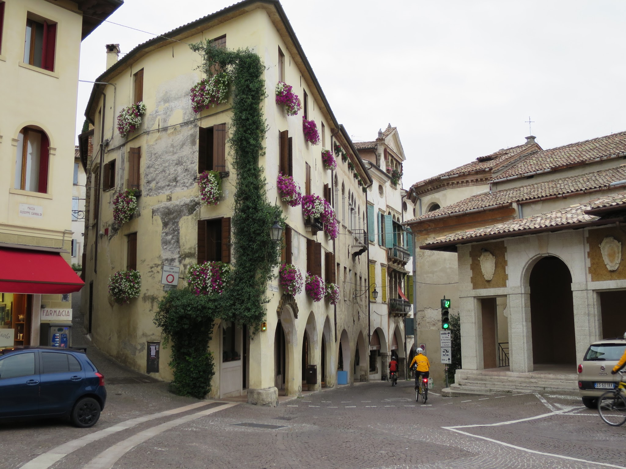 Leaving Asolo